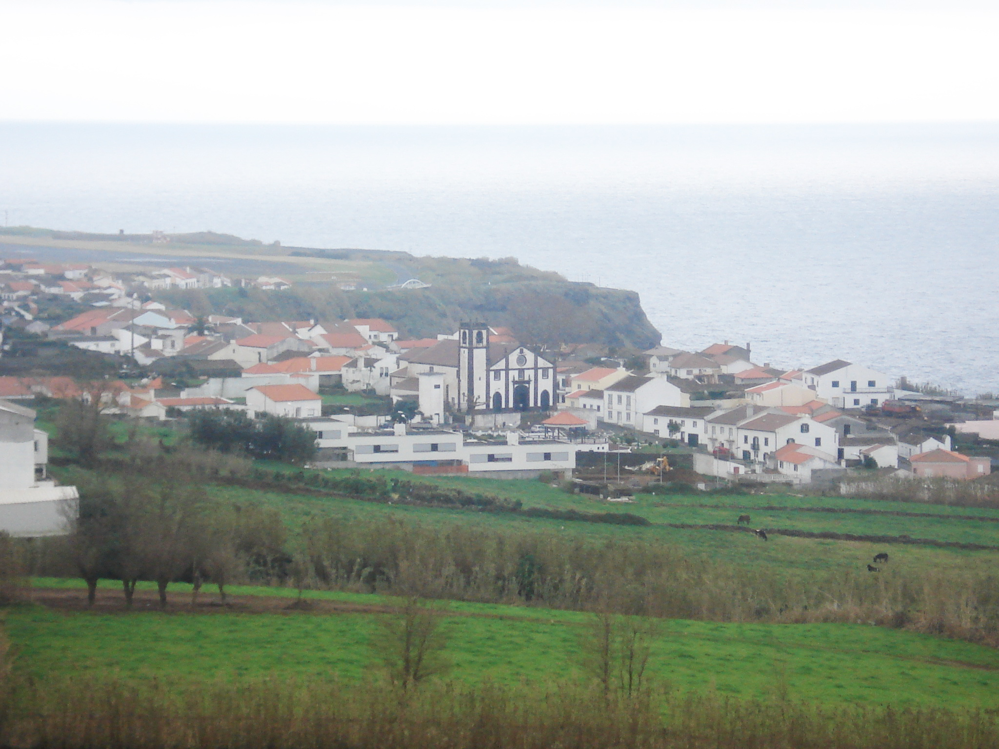 The village of Relva at the end of the airport on São Miguel Island, Azores